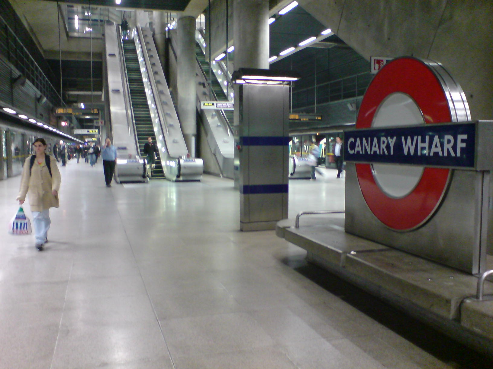 Jubilee Line platforms at Canary Wharf station.